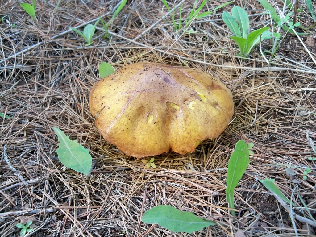 Suillus mediterraneensis in Montes de Málaga.